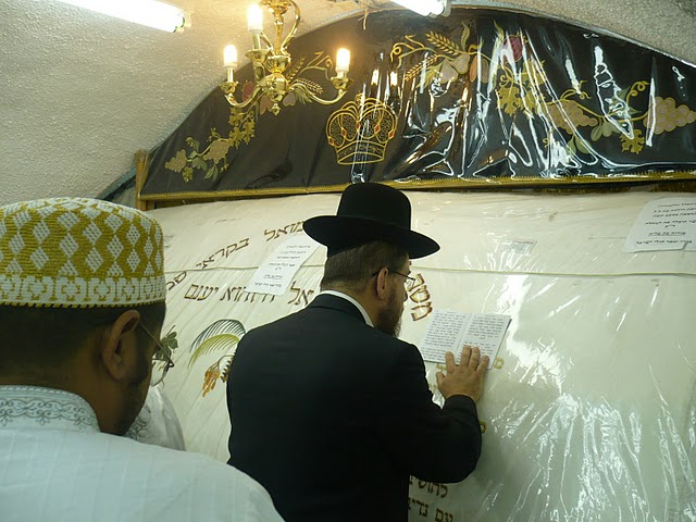 Samuel_Nabi